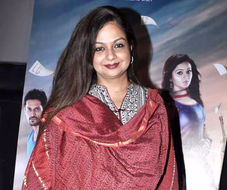 Neelima Azeem at First look launch of 'Dehraadun Diary'